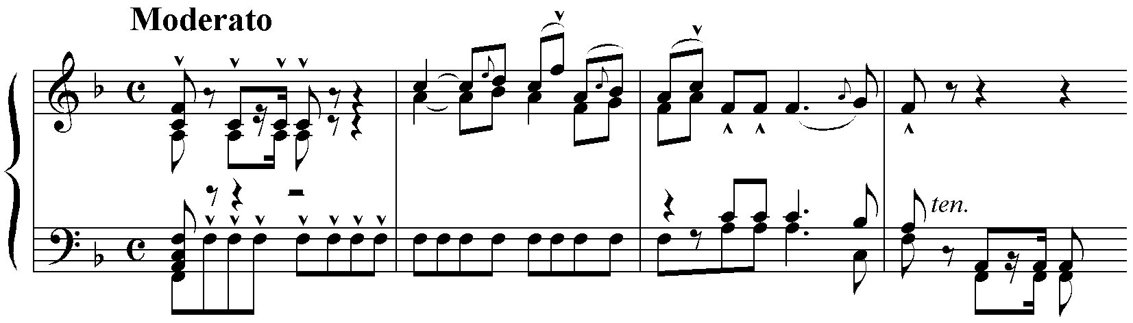 Haydn, Sonata Hob. XVI:29, bars 1-4